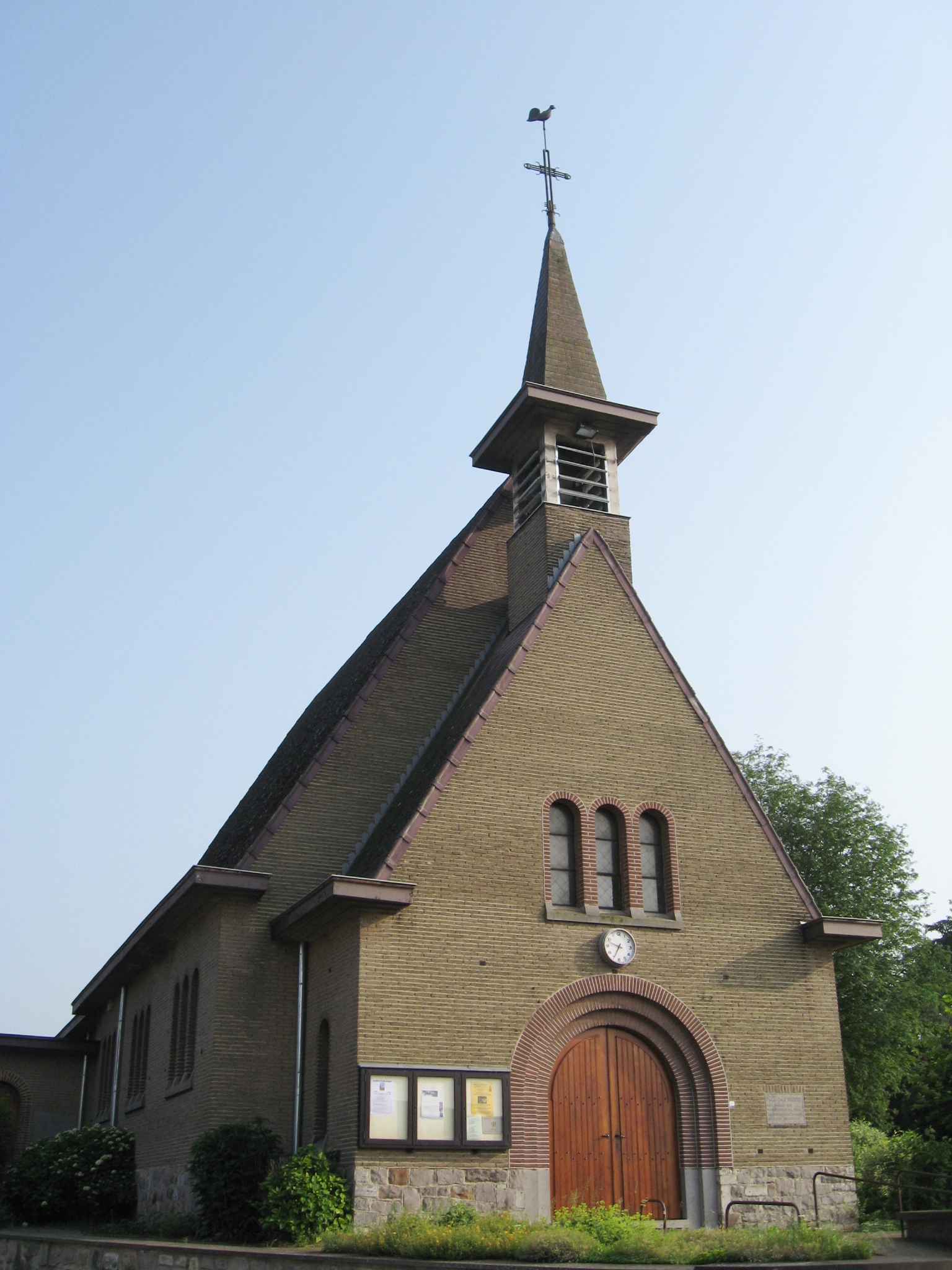 Church of Christ the King in Wange, Landen, Flemish Brabant, Belgium